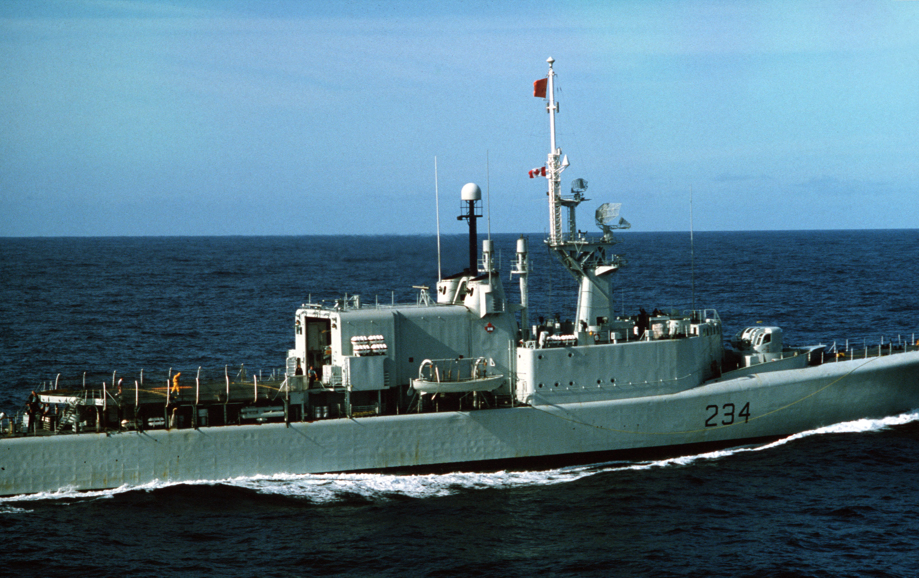 The Canadian frigate HMCS Assiniboine (DDH 234) underway, in 1982.